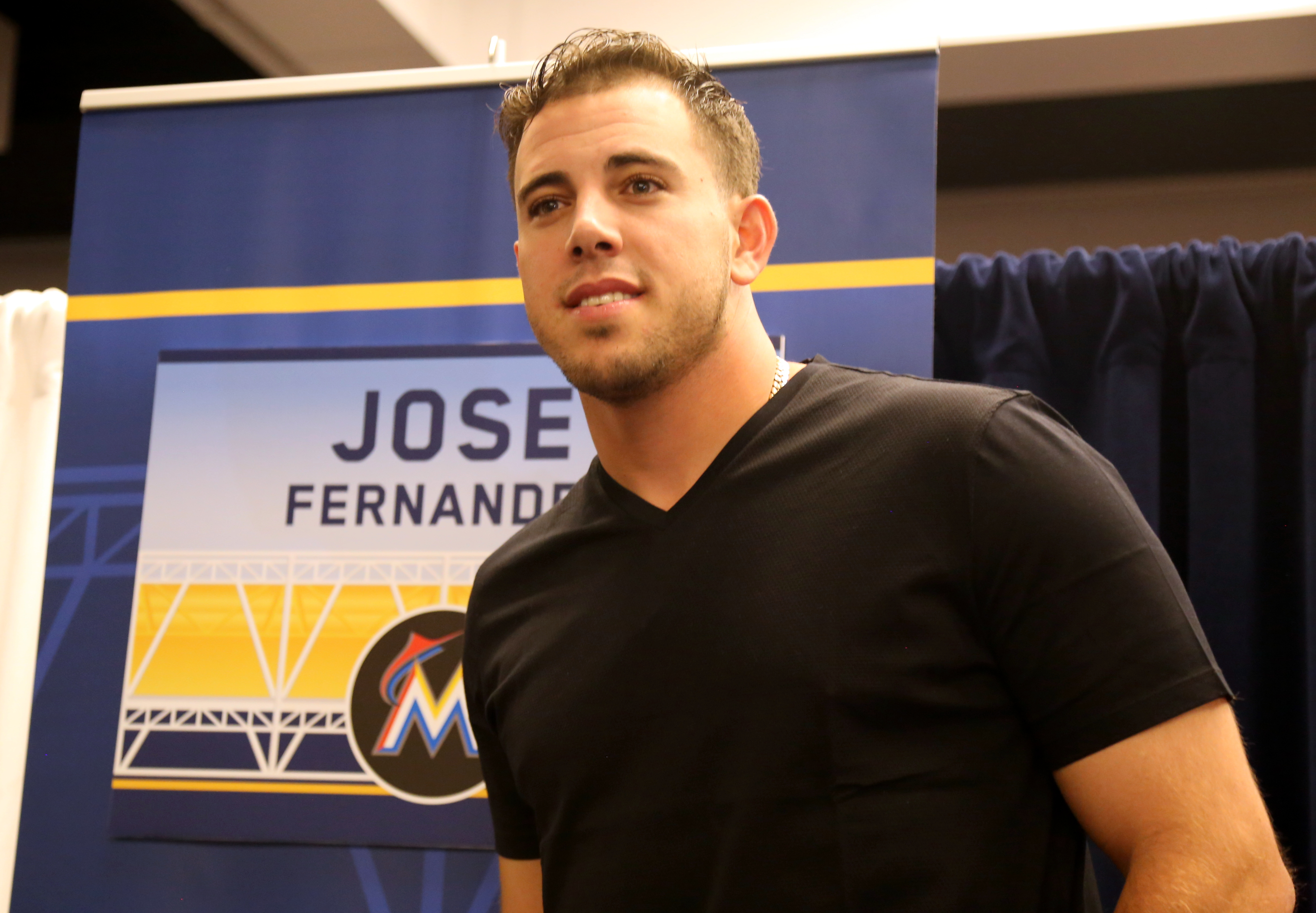 Marlins pitcher Jose Fernandez talks to reporters at 2016 All-Star Game availability.